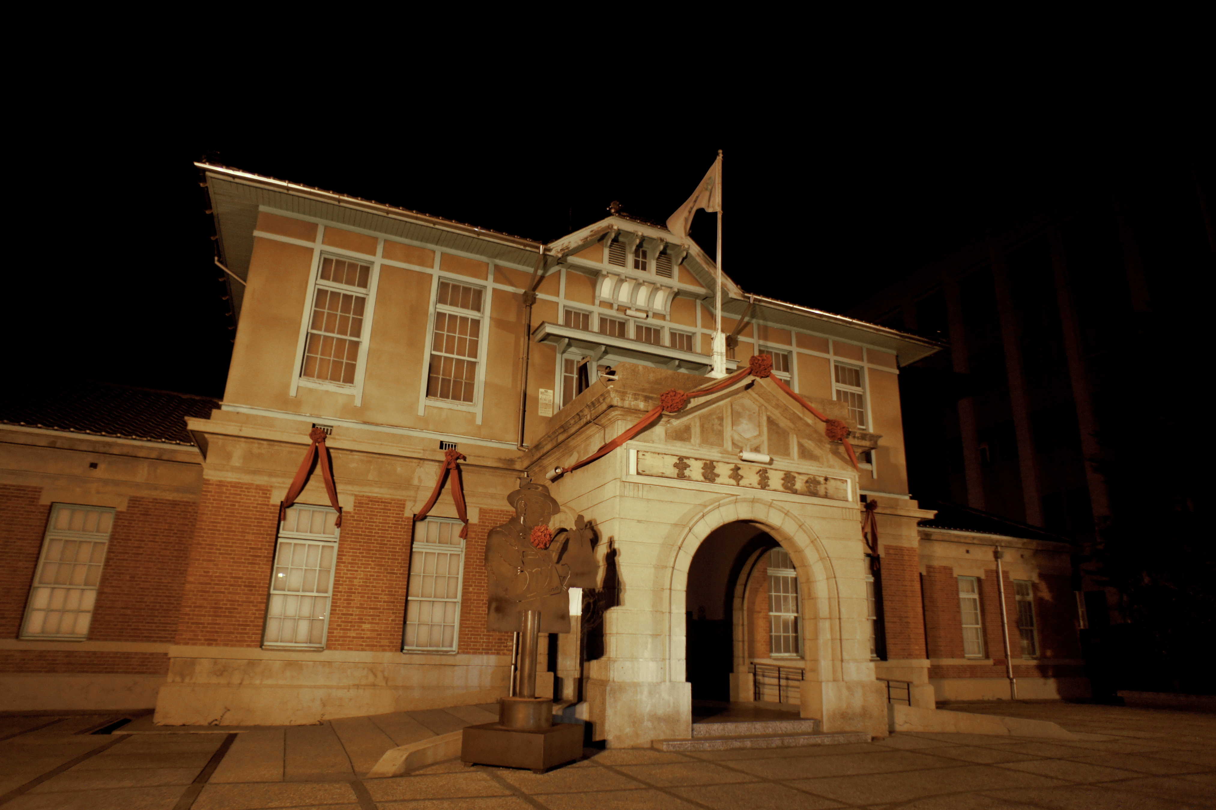 Yunlin Hand Puppet Museum (former Huwei District Office) 498, Sec. 1, Linsen Road, Huwei Township, Yunlin County, Taiwan.